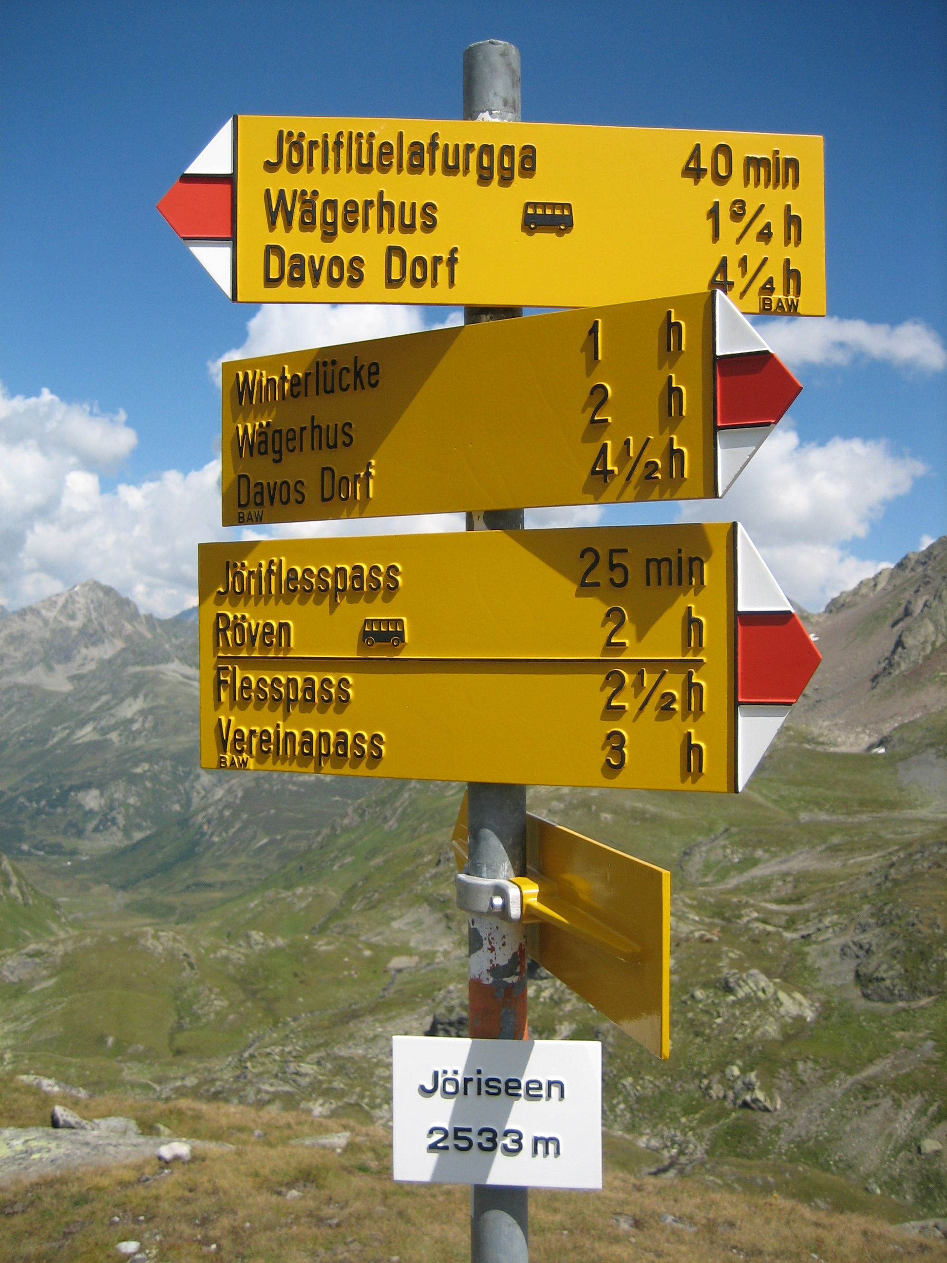 Fingerpost near Jöriseen (Klosters-Serneus, Grison, Switzerland)